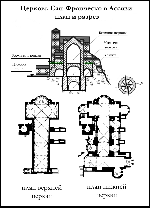 Plan of the Basilica of Saint Francis